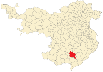 Caldas de Malavella